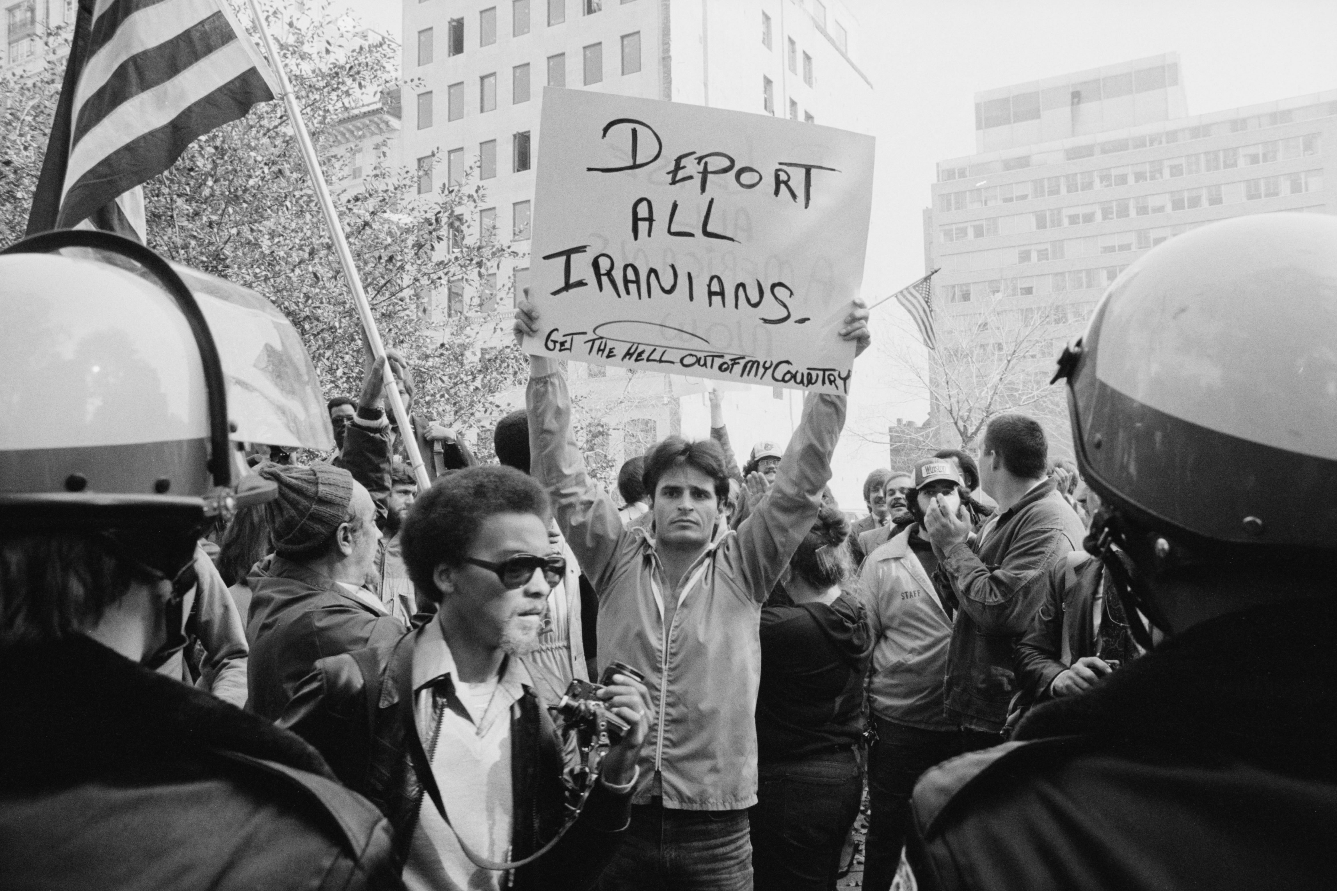 Iran Hostage Crisis student demonstration, Washington, D.C. Title devised by Library staff. Contact sheet folder caption: Iran students demonstrate. MST. U.S. News & World Report Magazine Photograph Collection. Contact sheet available for reference purposes.